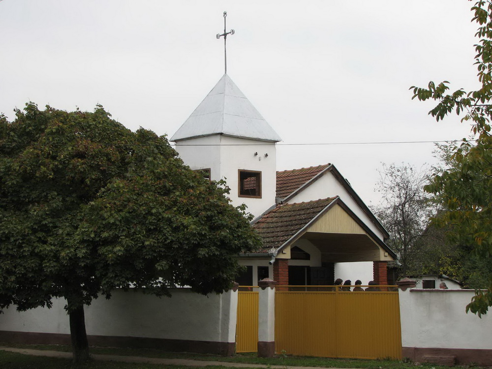 Slovak evangelical church in Ašanja (Vojvodina, Serbia). Srpski (latinica): Slovačka evangelistička crkva u Ašanji.